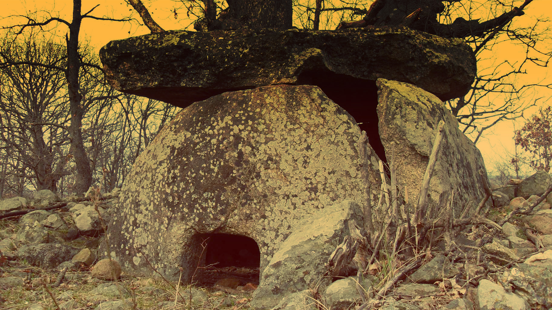 Granichar dolmen BG